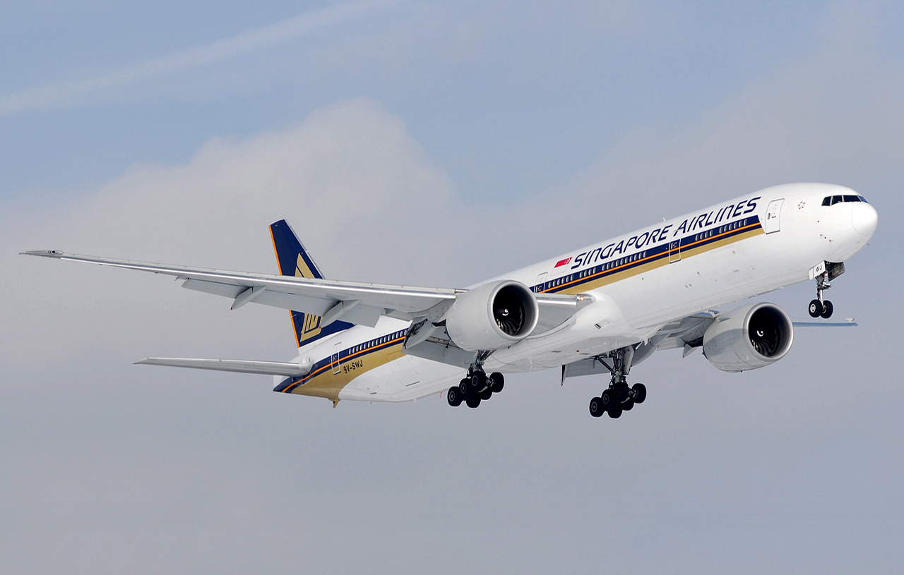 9V-SWJ (cn 34575/623)